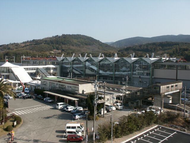 Izumi Station, Izumi City, Kagoshima, Japan